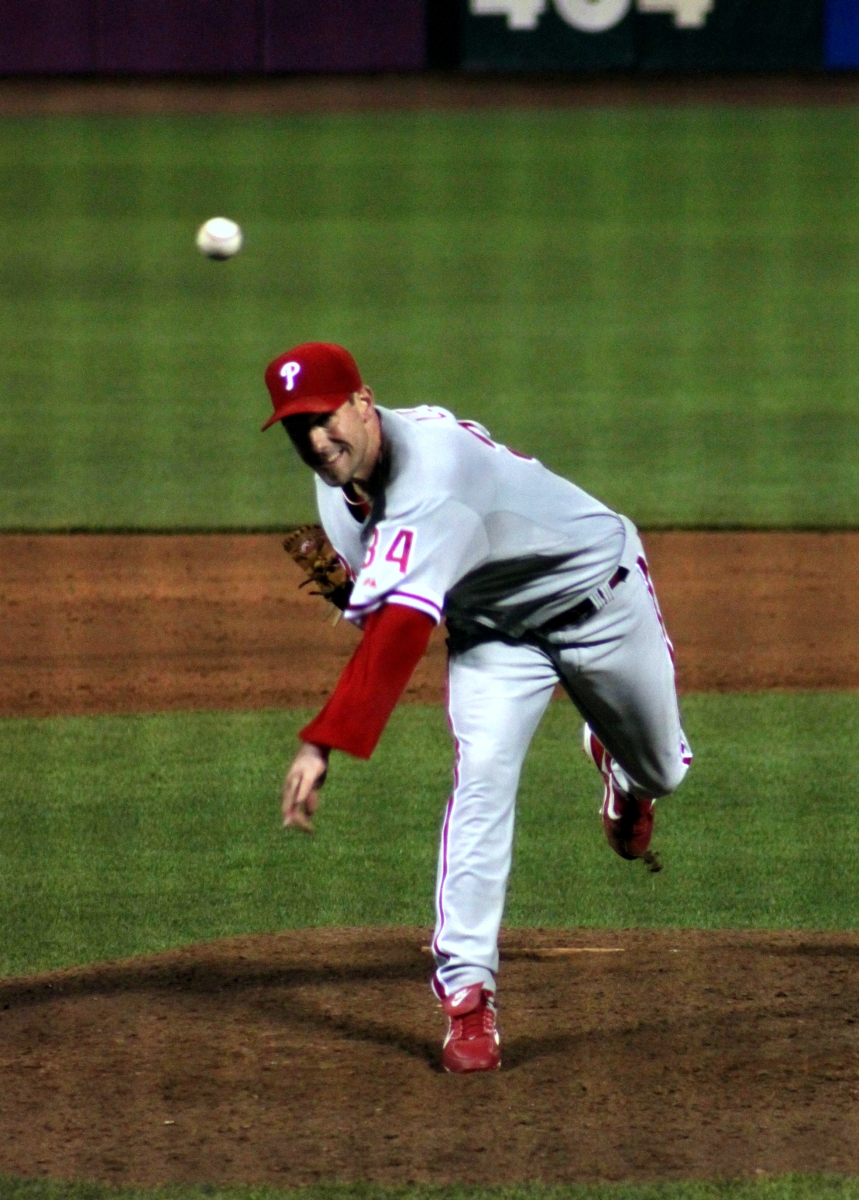 Cliff Lee pitching for the first time as a member of the Philadelphia Phillies.